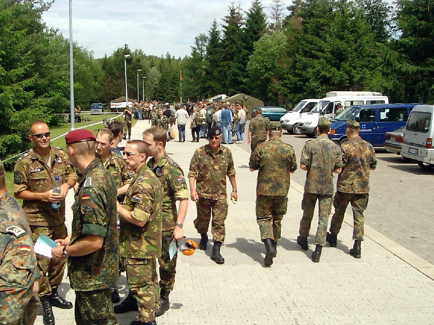 Participants at Monte-Kali-Shooting